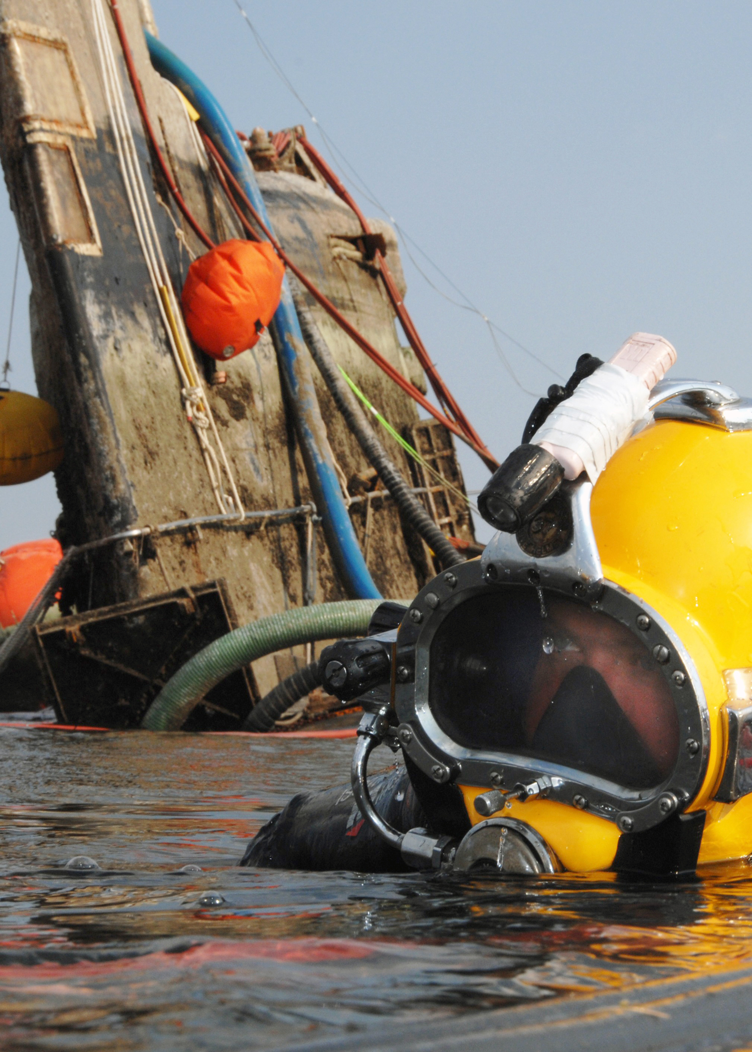 An Army Diver surveys a broken bridge in Iraq.